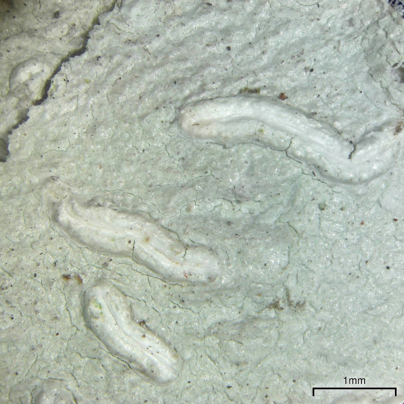 The lichen Acanthothecis abaphoides (Nyl.) Staiger & Kalb. Specimen photographed in Ocala National Forest, Marion Co., Florida, USA.